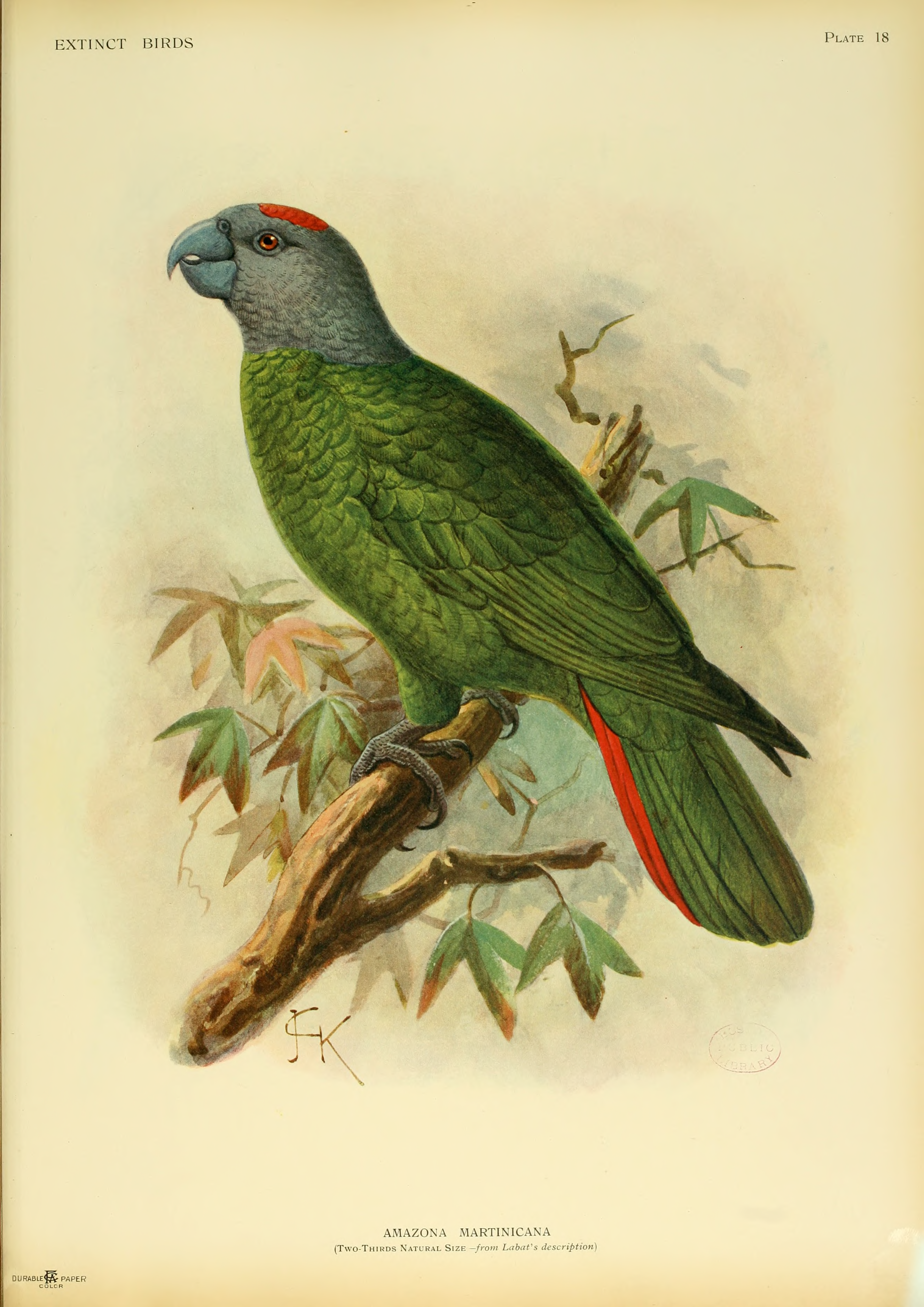 The Martinique Amazon, Amazona martinicana, was a species of parrot in the Psittacidae family. It was endemic to Martinique.